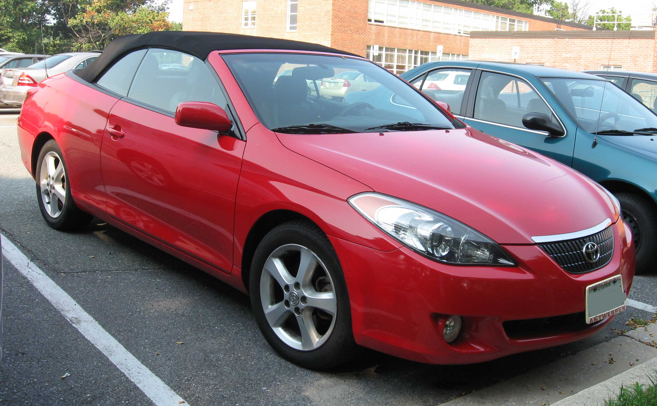 2003-2006 Toyota Solara photographed in Silver Spring, Maryland, USA.